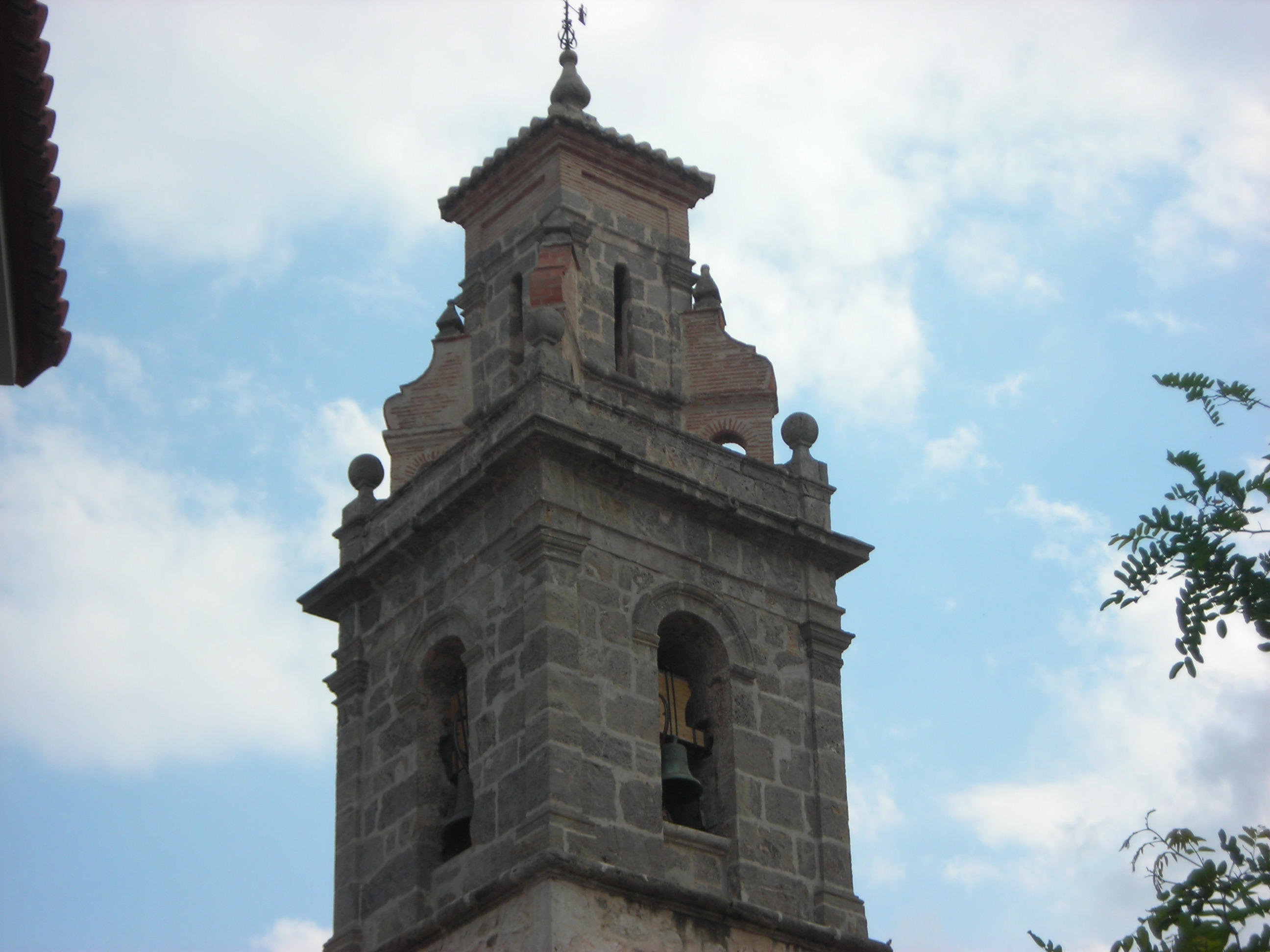 Geldo